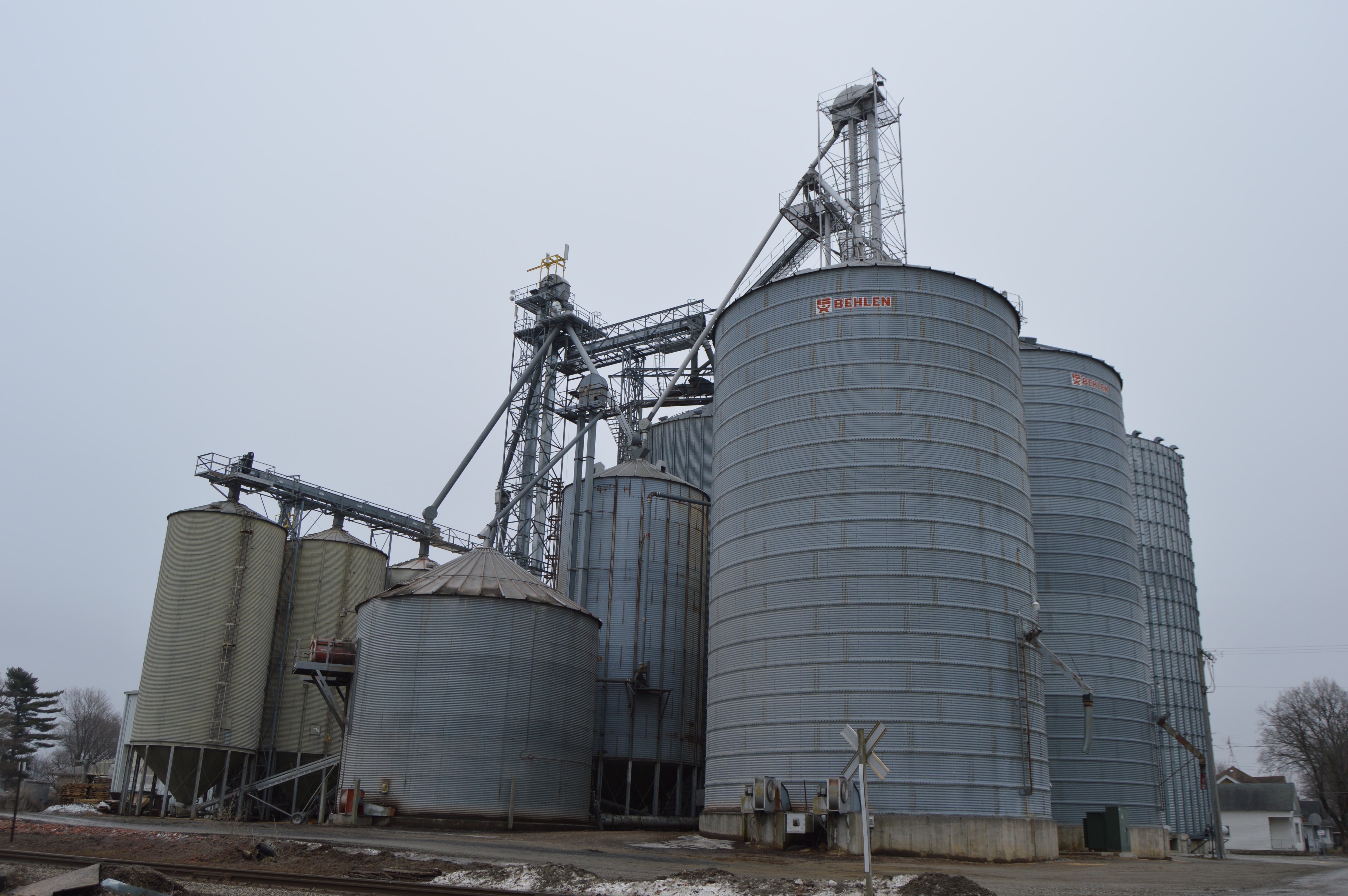 Northern side of a grain elevator complex on Main Street in Idaville, Indiana, United States.